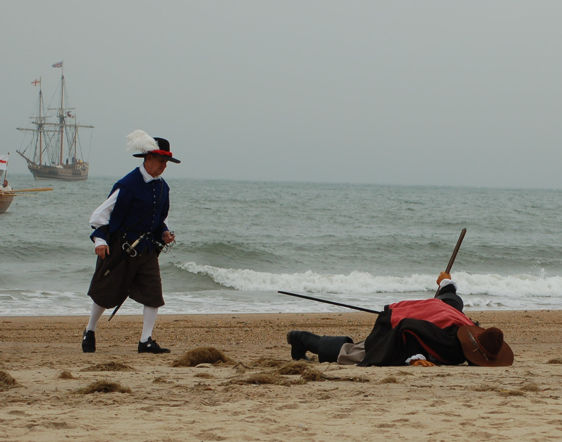 Re-enactment at the Seashore